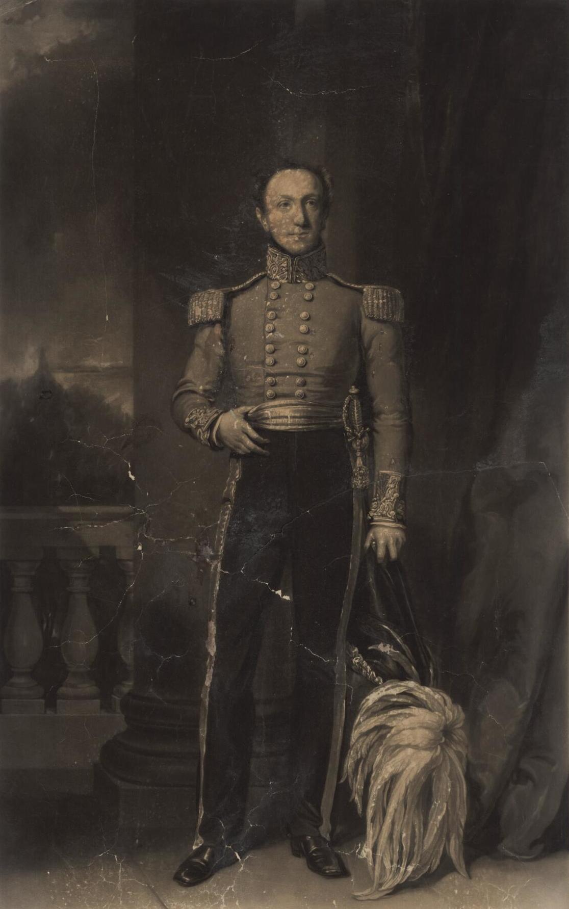 A portrait from the Welsh Portrait Collection at the National Library of Wales. Depicted person: William Edward Powell – British politician, died 1854